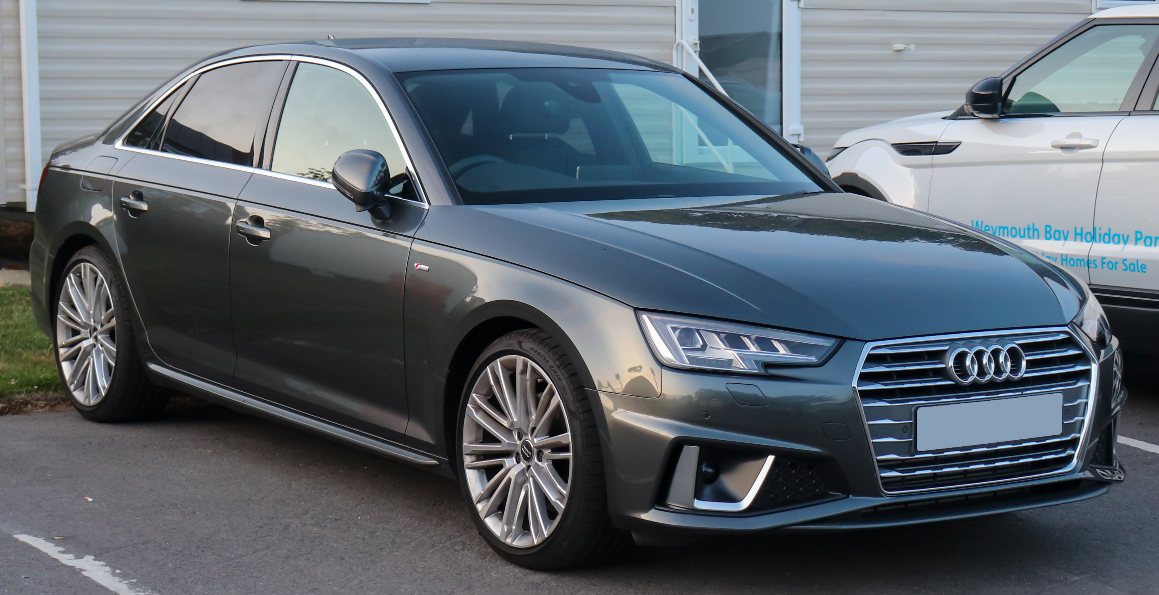 2019 Audi A4 S Line 40 TFSi S-A 2.0 Taken in Preston, Dorset